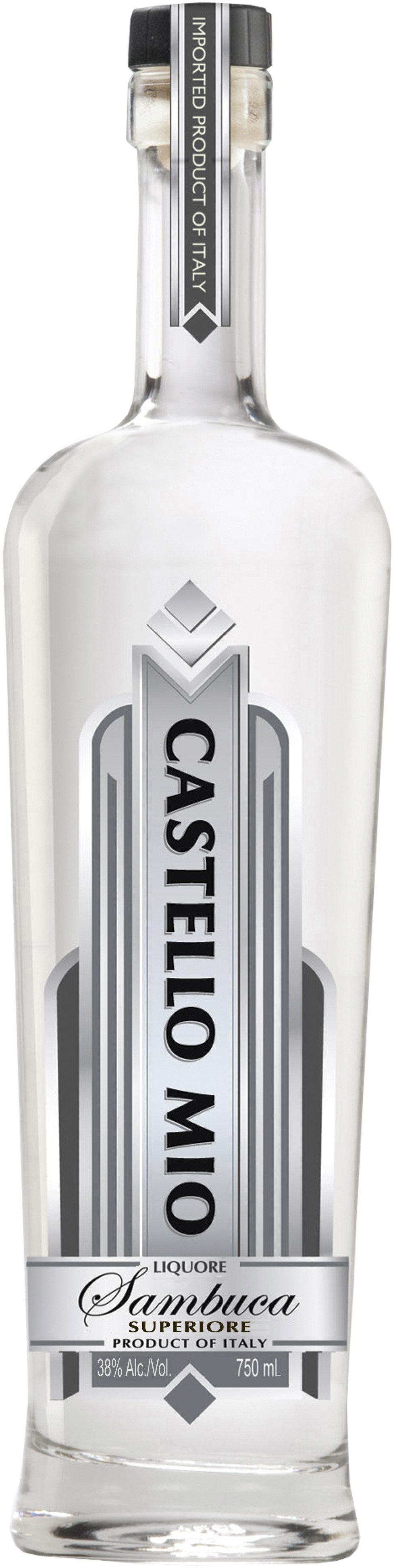 Castello Mio Sambuca bottle shot